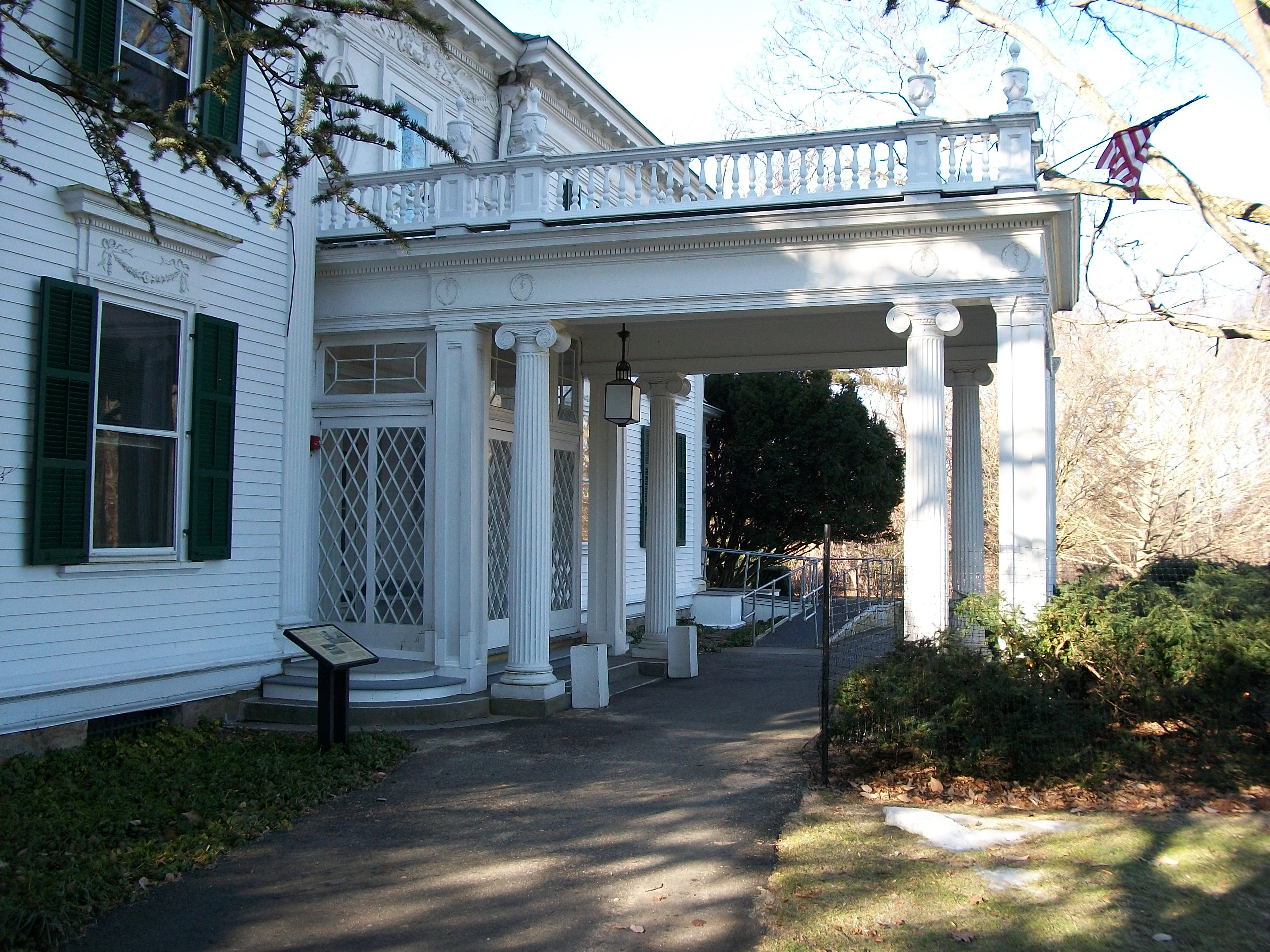 The main entrance of the Frelinghuysen Arboretum in Morristown, NJ. It currently houses the offices of county officials. There are plans to make this building into a museum.